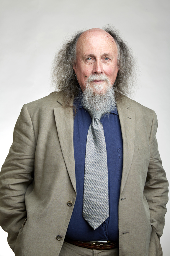 (Iain) Colin Prentice FRS holds the AXA Chair in Biosphere and Climate Impacts at Imperial College London and an Honorary Chair in Ecology and Evolution at Macquarie University in Australia Attribution: The Royal Society